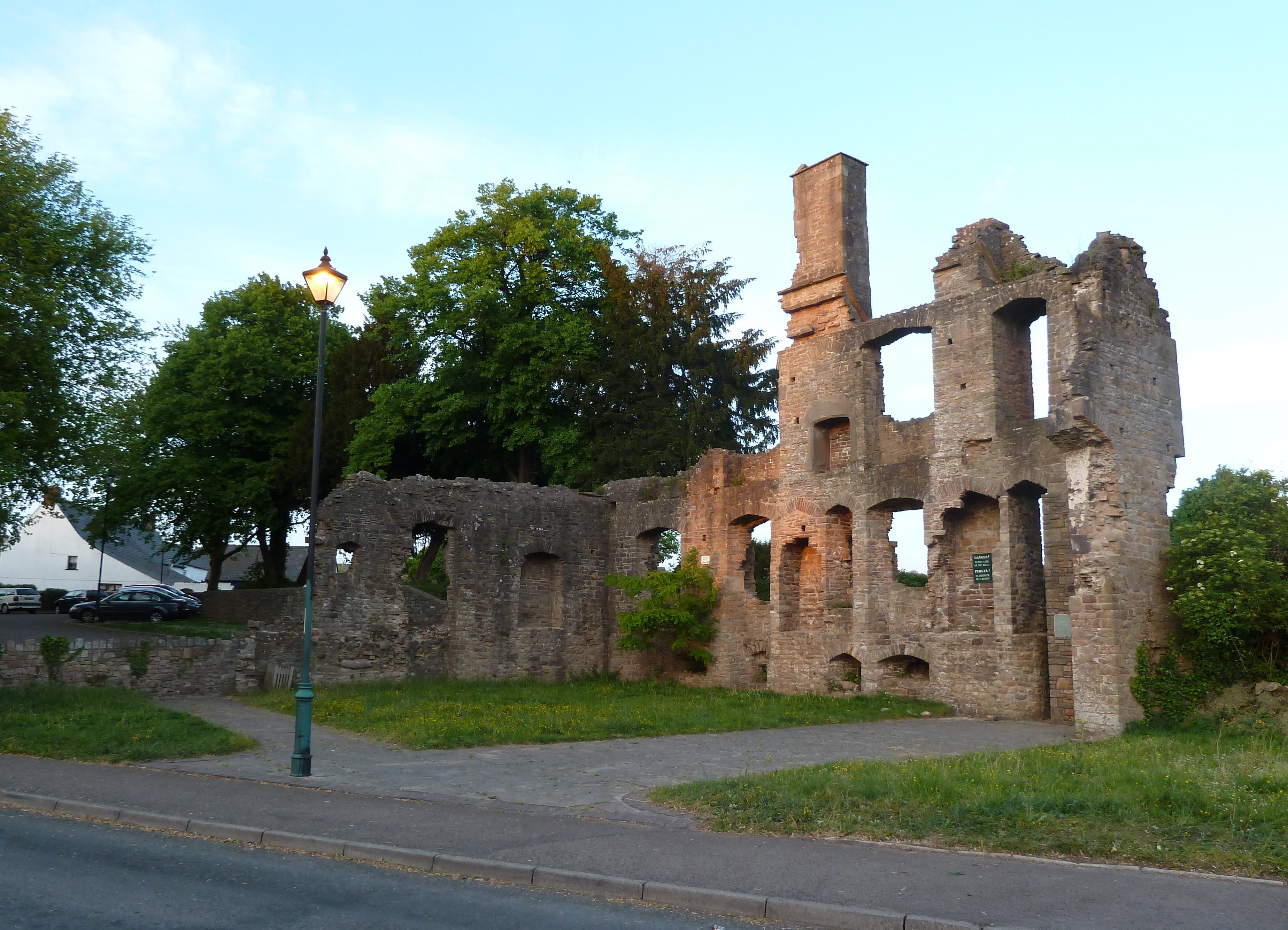 The Procurator's House, Magor, Monmoutshire.